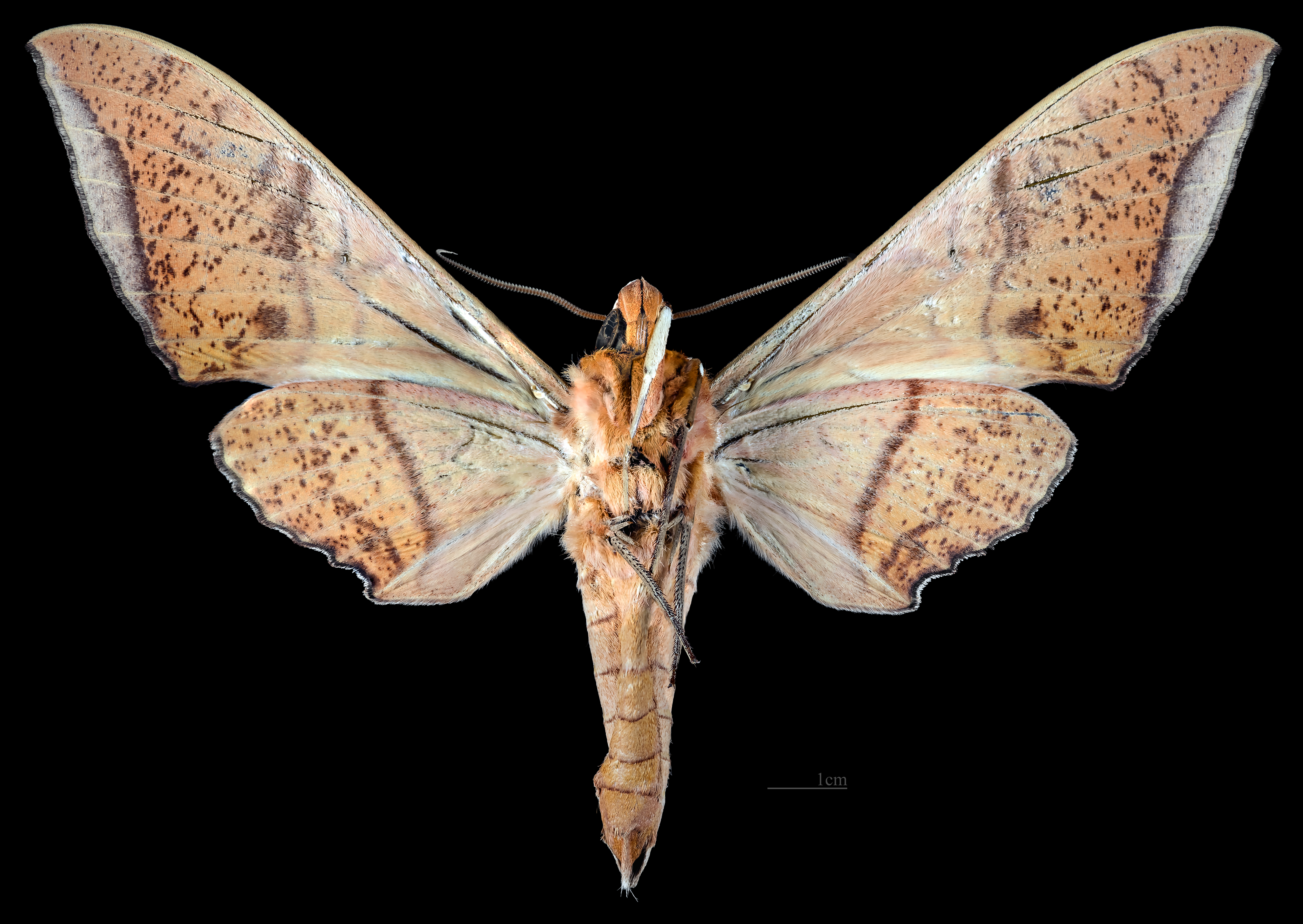 Ambulyx cyclasticta - △ Ventral side Collection of the Mathematician Laurent Schwartz